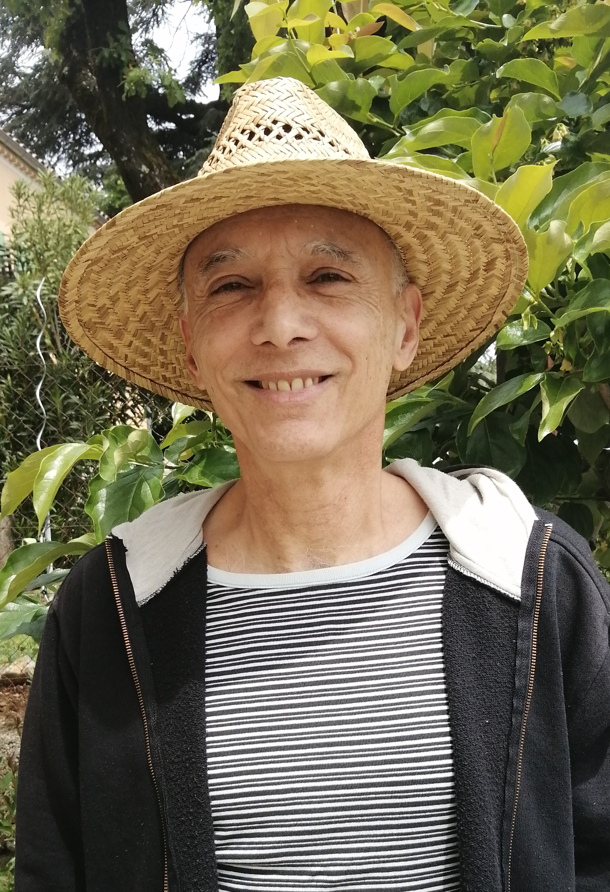 Patrick Portella at Aubenas - Ardèche 2020